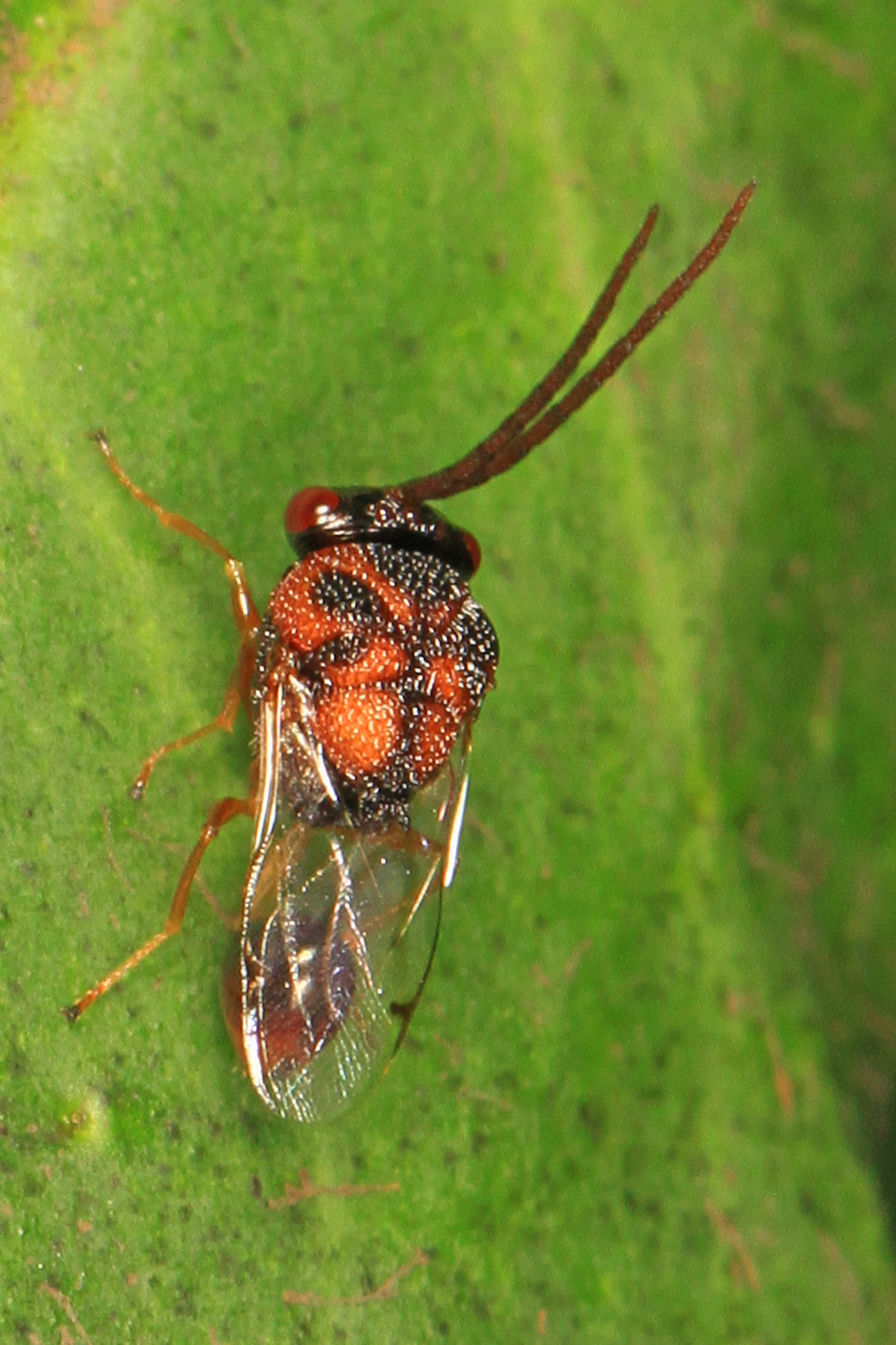 Eucharitid Wasp - Obeza floridana, Everglades National Park, Homestead, Florida. This is a really tiny but pretty wasp that parasitizes Carpenter Ants. The adult wasp lays eggs in blueberries. Larvae ride on ants back to nests or are carried to nest with fruit.